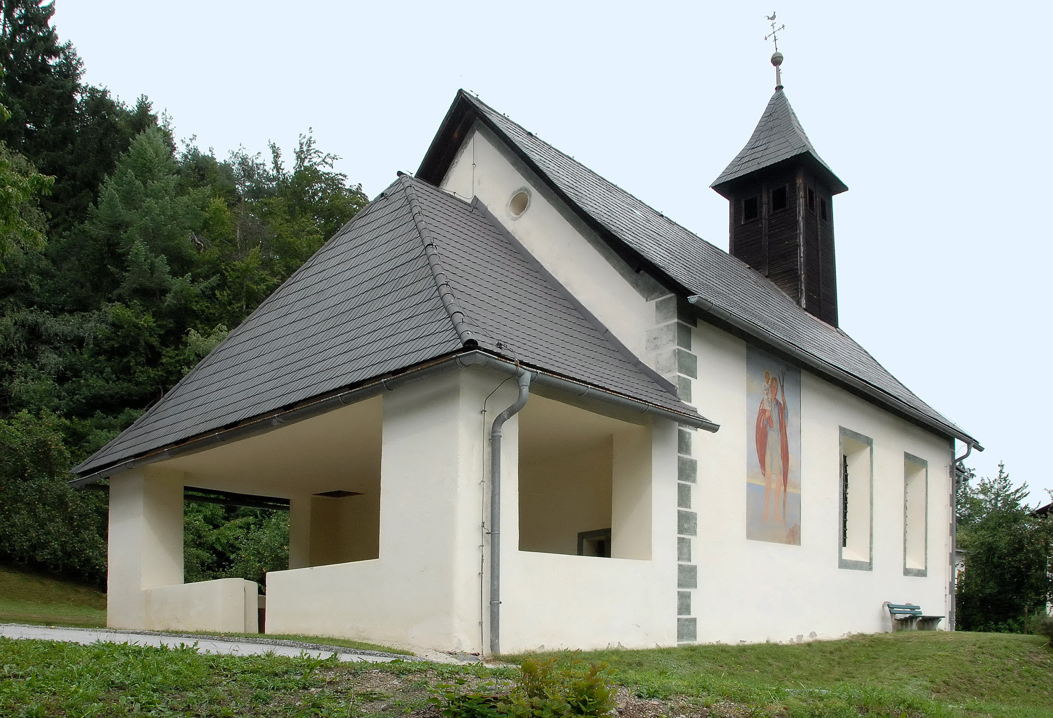 Subsidiary church Saint George at Tibitsch, community Techelsberg, district Klagenfurt-Land, Carinthia, Austria